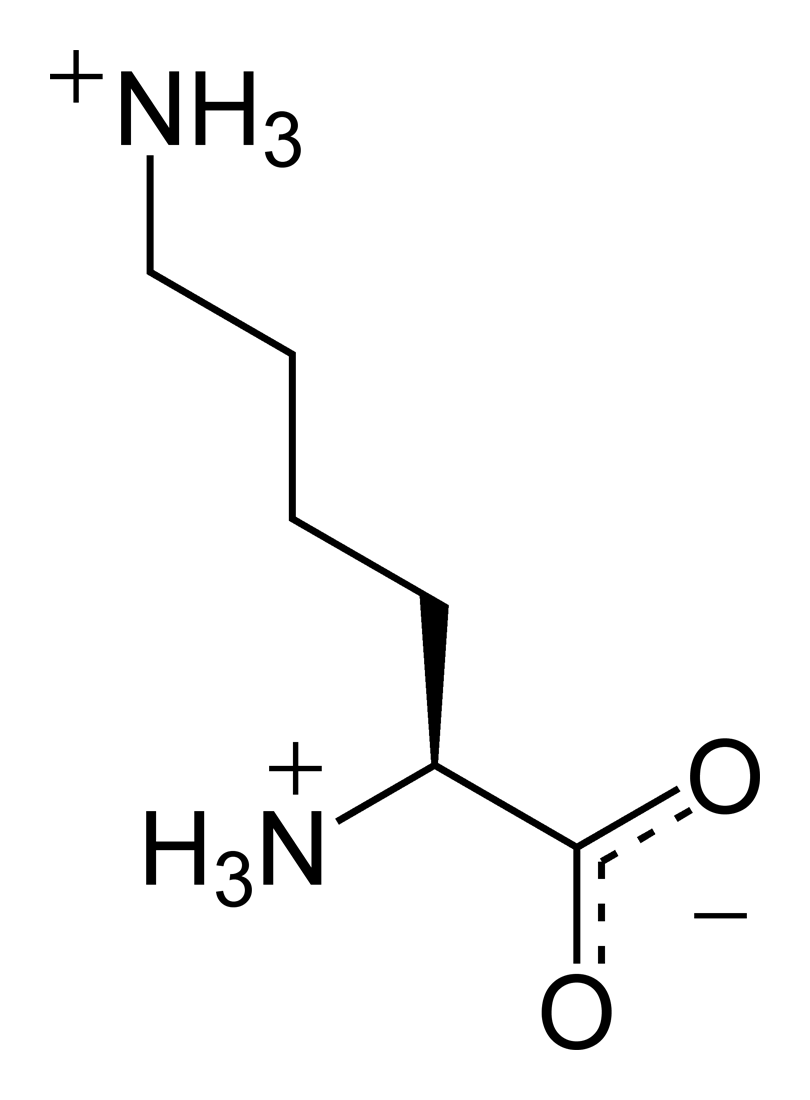 Skeletal formula of the L-lysine monocation, (S)-2,6-diammoniohexanoate, [C6H15N2O2]+, as found in the crystal structure of L-lysine monohydrochloride dihydrate. X-ray crystallographic data from Acta Cryst. (1972). B28, 3207-3214. Model constructed in CrystalMaker 8.1. Image generated in Accelrys DS Visualizer.